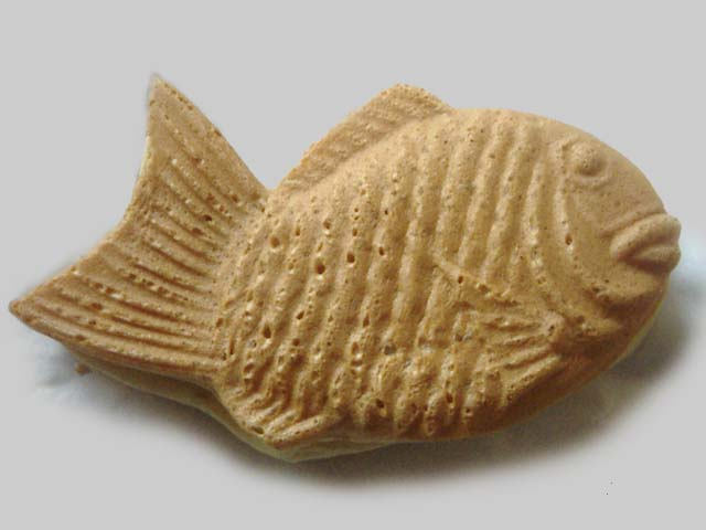 Taiyaki